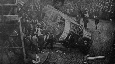 en:1907 Birmingham Tramway accident, contemporary postcard. See also File:Birmingham 1907 tram crash 1.jpg